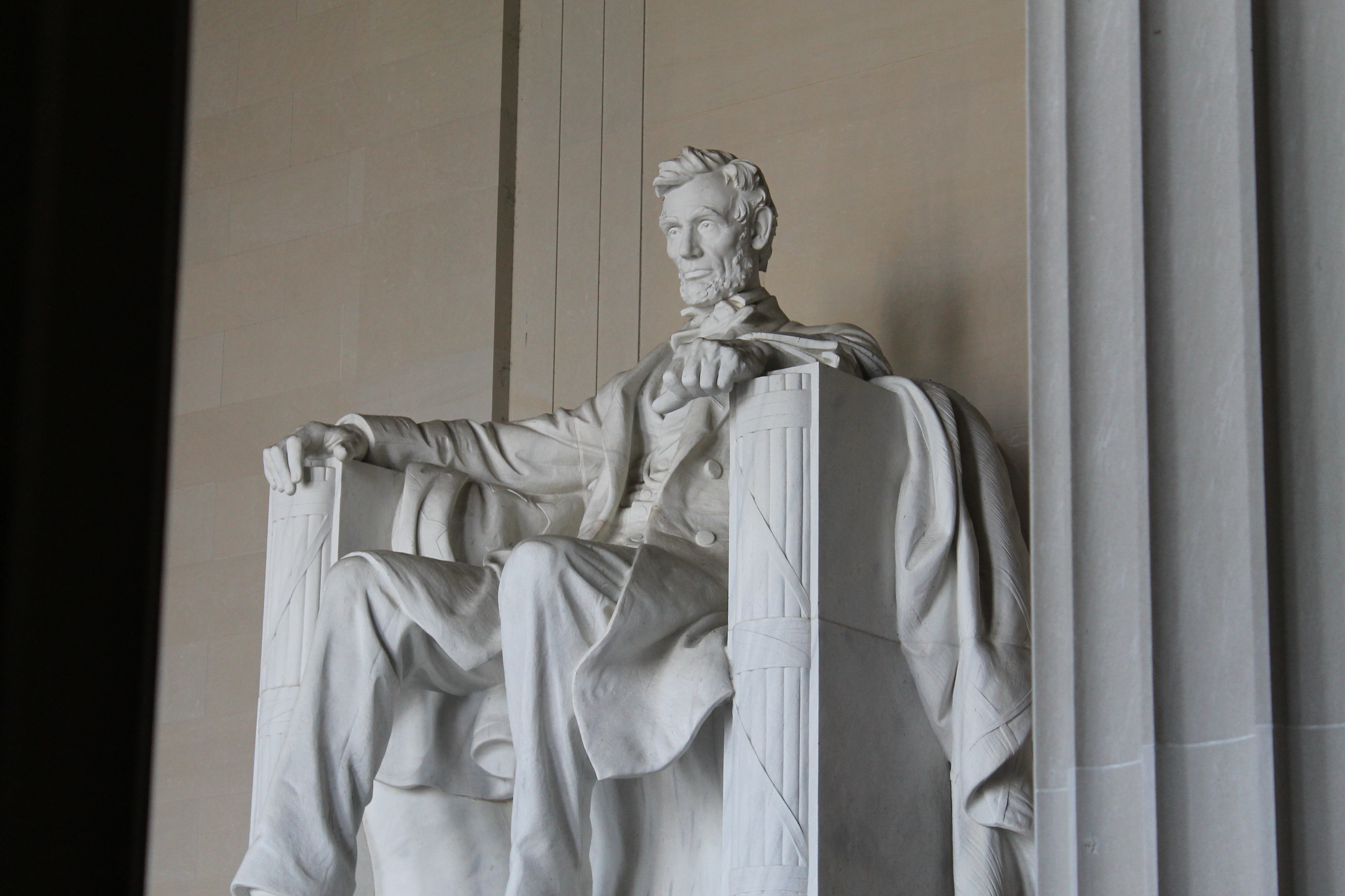 Lincoln Memorial, West Potomac Park Monumental Core